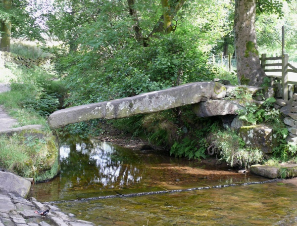 Clam Bridge, a clapper bridge at Wycoller, Pendle, East Lancashire, UK – NB The free licensing applies to this version of the work: 600x457px. All rights to the original, high resolution version are retained.